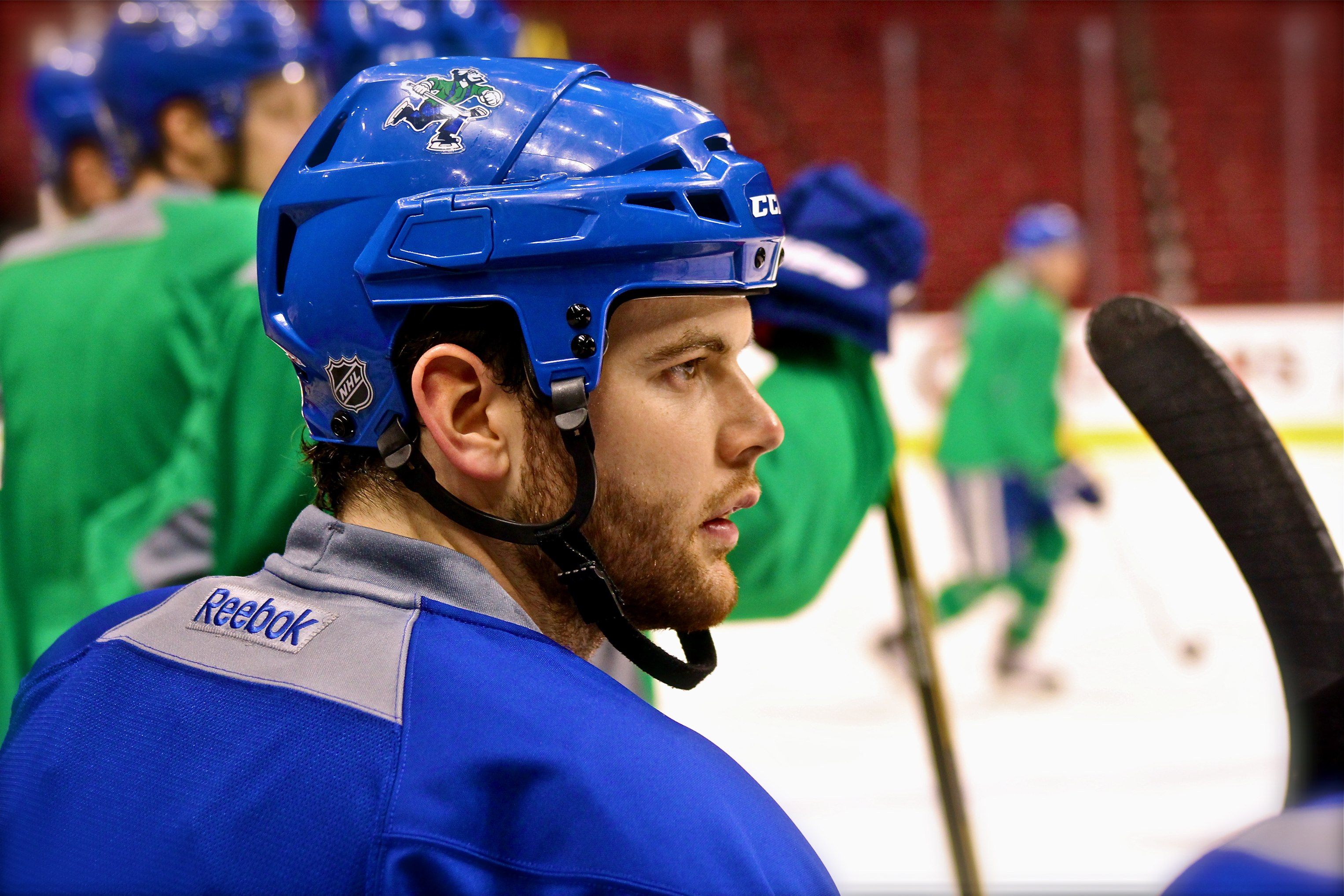 Vancouver Canucks forward Zack Kassian during a practice on March 9, 2012.